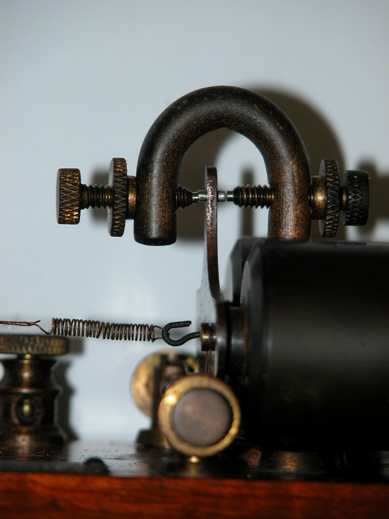 Contact points of an antique telegraph repeater relay.